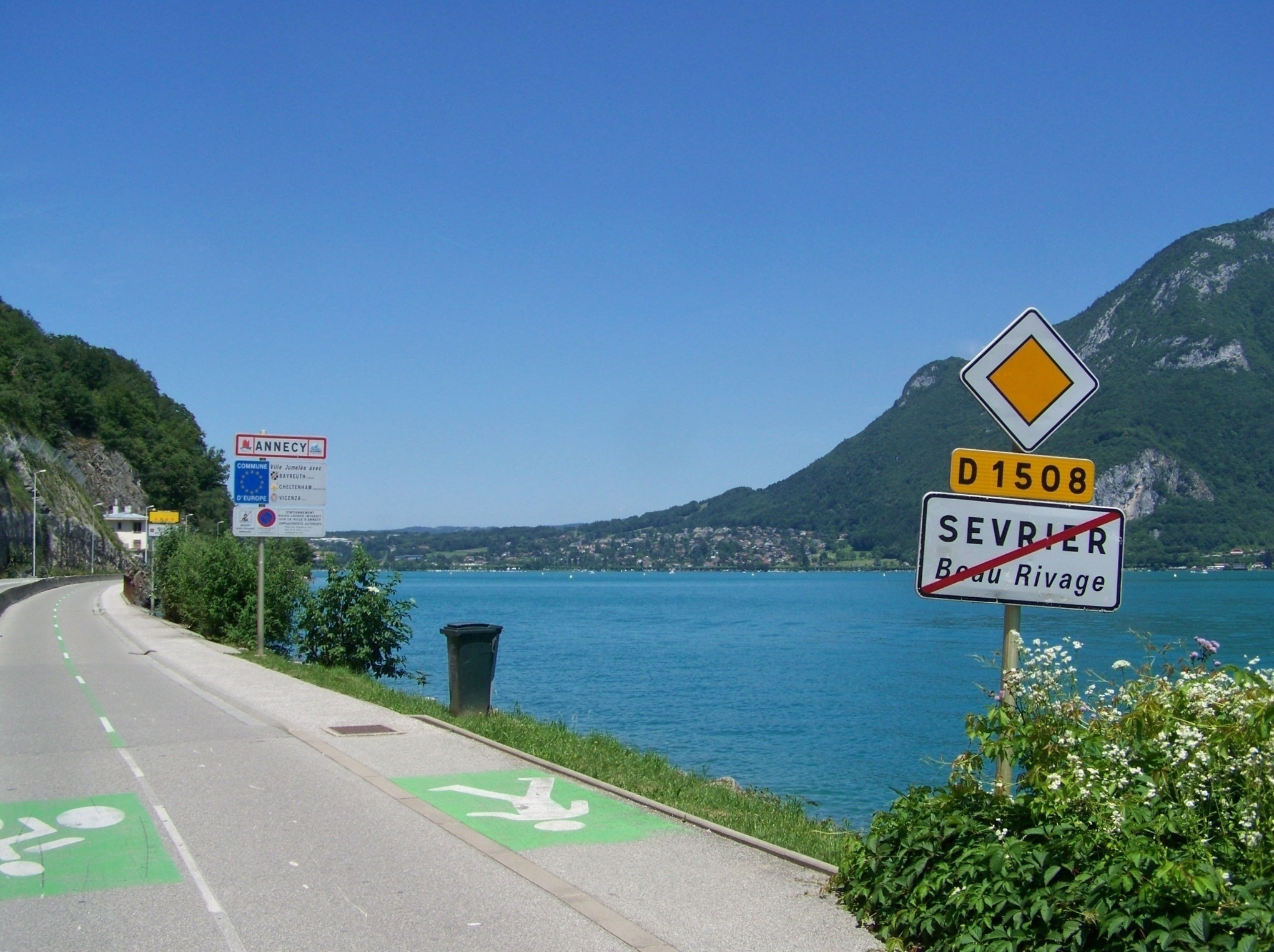 Sight of the D 1508 road entering into French city of Annecy after leaving Sevrier (Haute-Savoie).